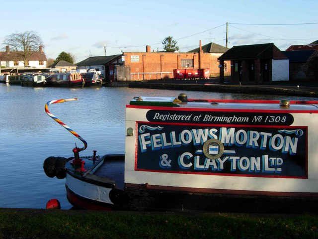 Fellows Morton and Clayton Motorboat No.1308 Lily at Gayton Junction